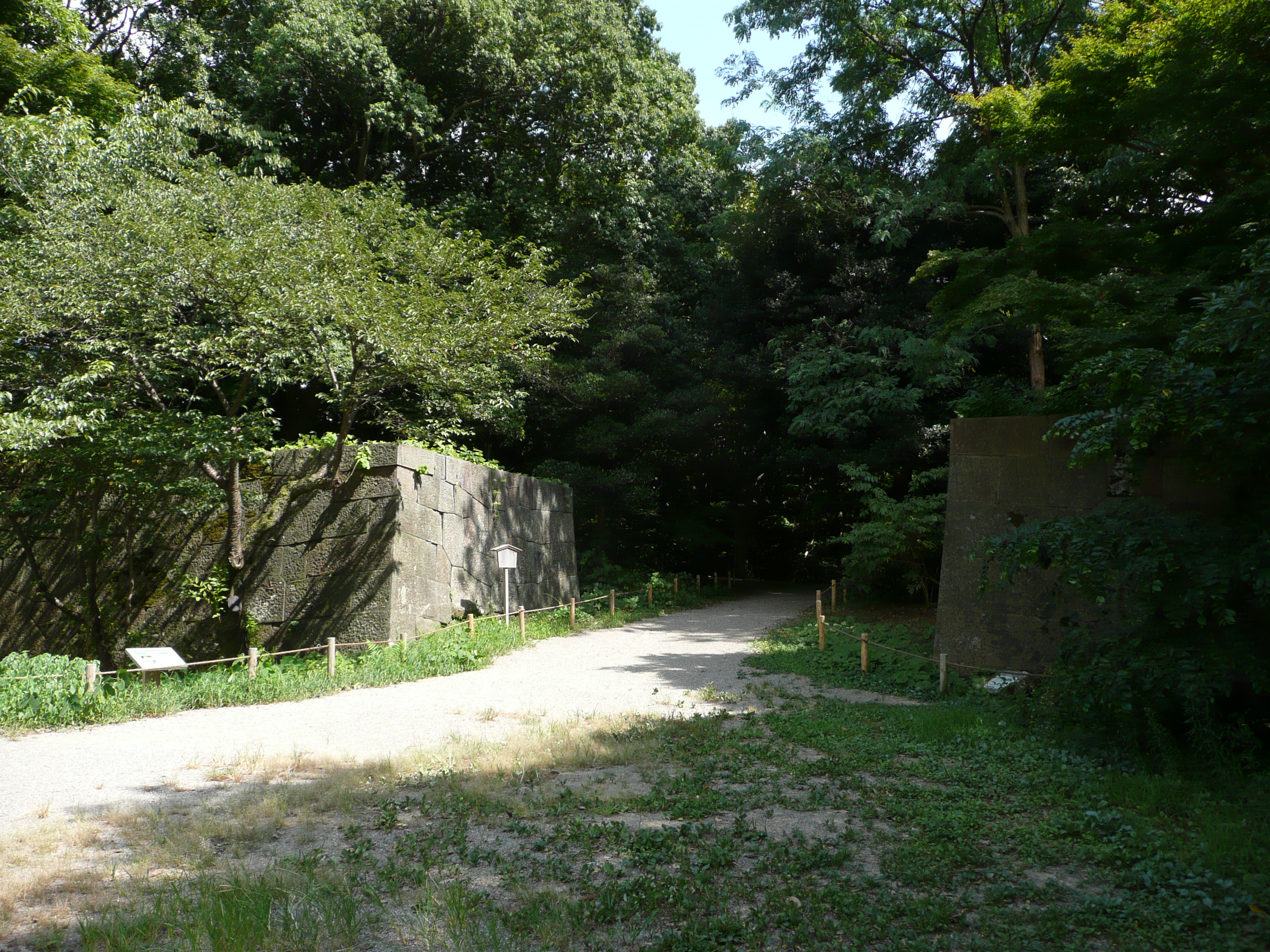 金沢城鉄門跡